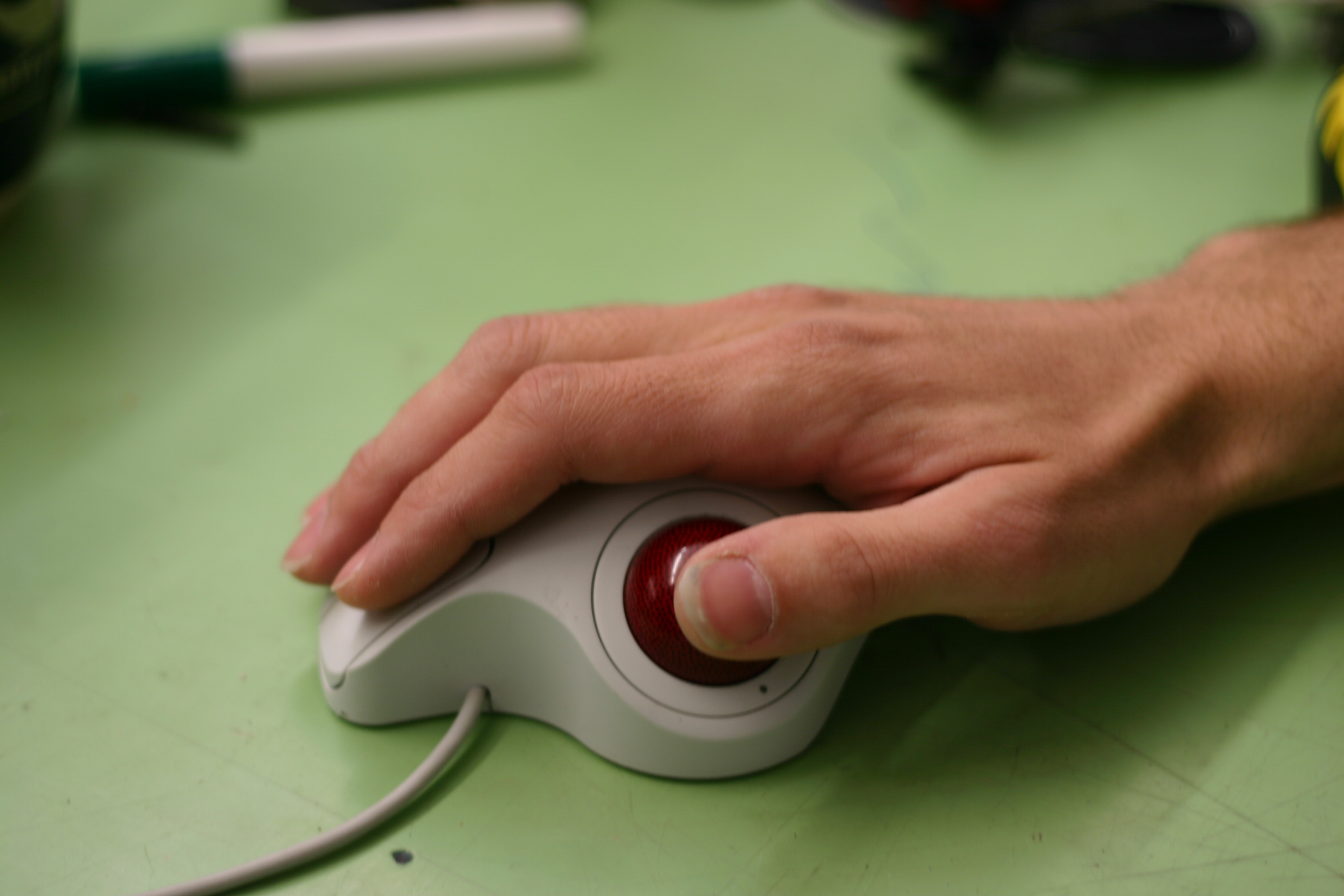 a person using a Logitech Trackman Marble wheel trackball